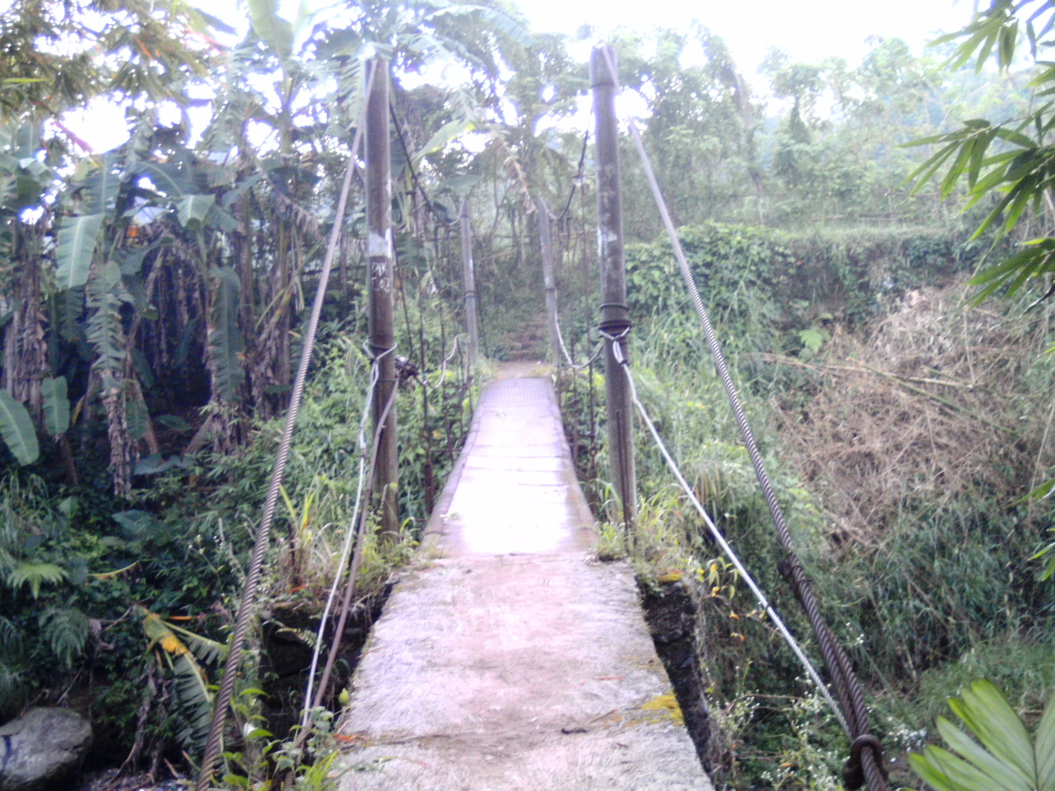 Small suspension bridge in Bogor, West Java, Indonesia